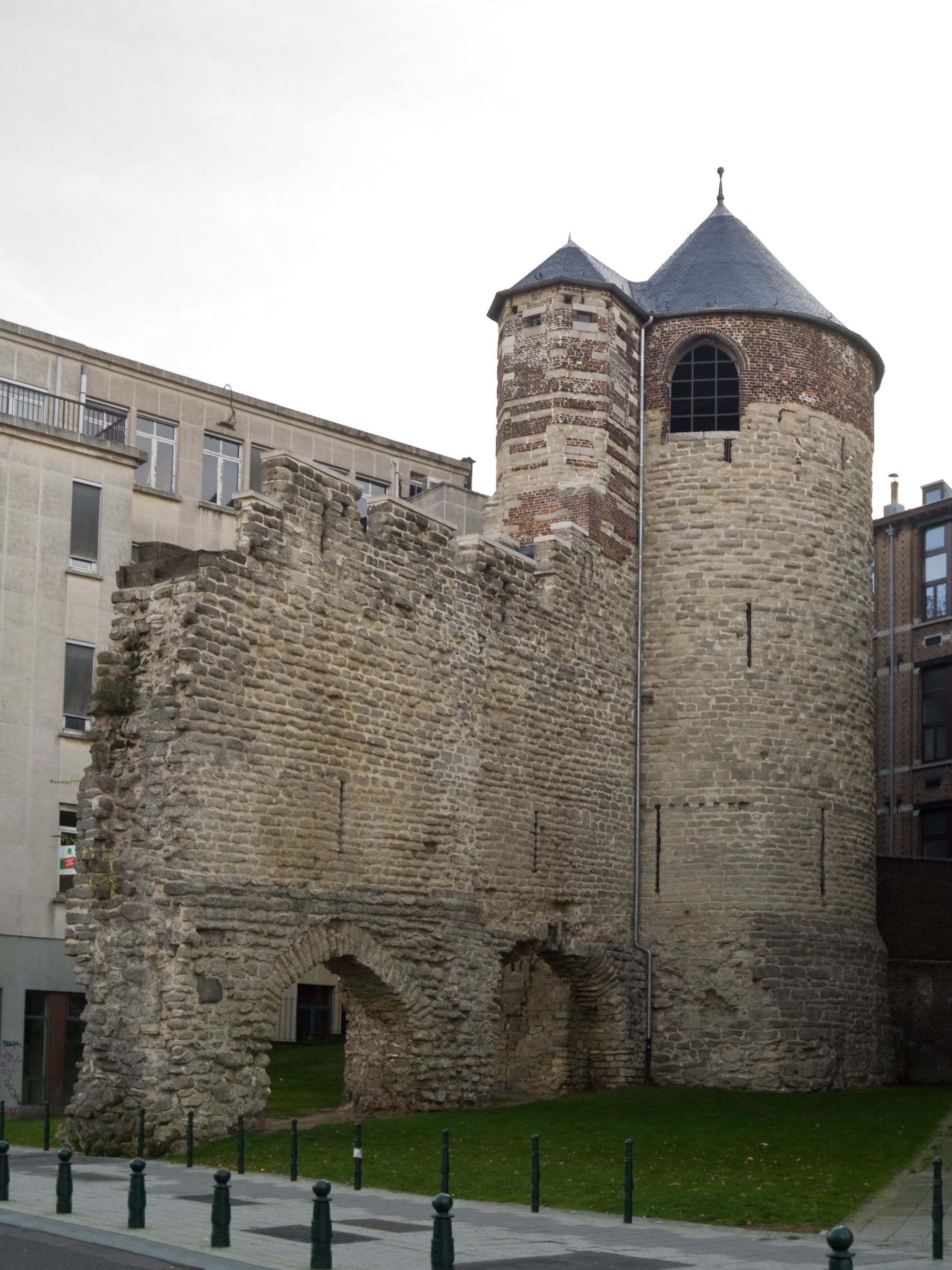 Brussels, Belgium : the Anneessens Tower (outside view). The Anneessens Tower, also called Tour d'angle, was part of the first walls of Brussels (13th-century).